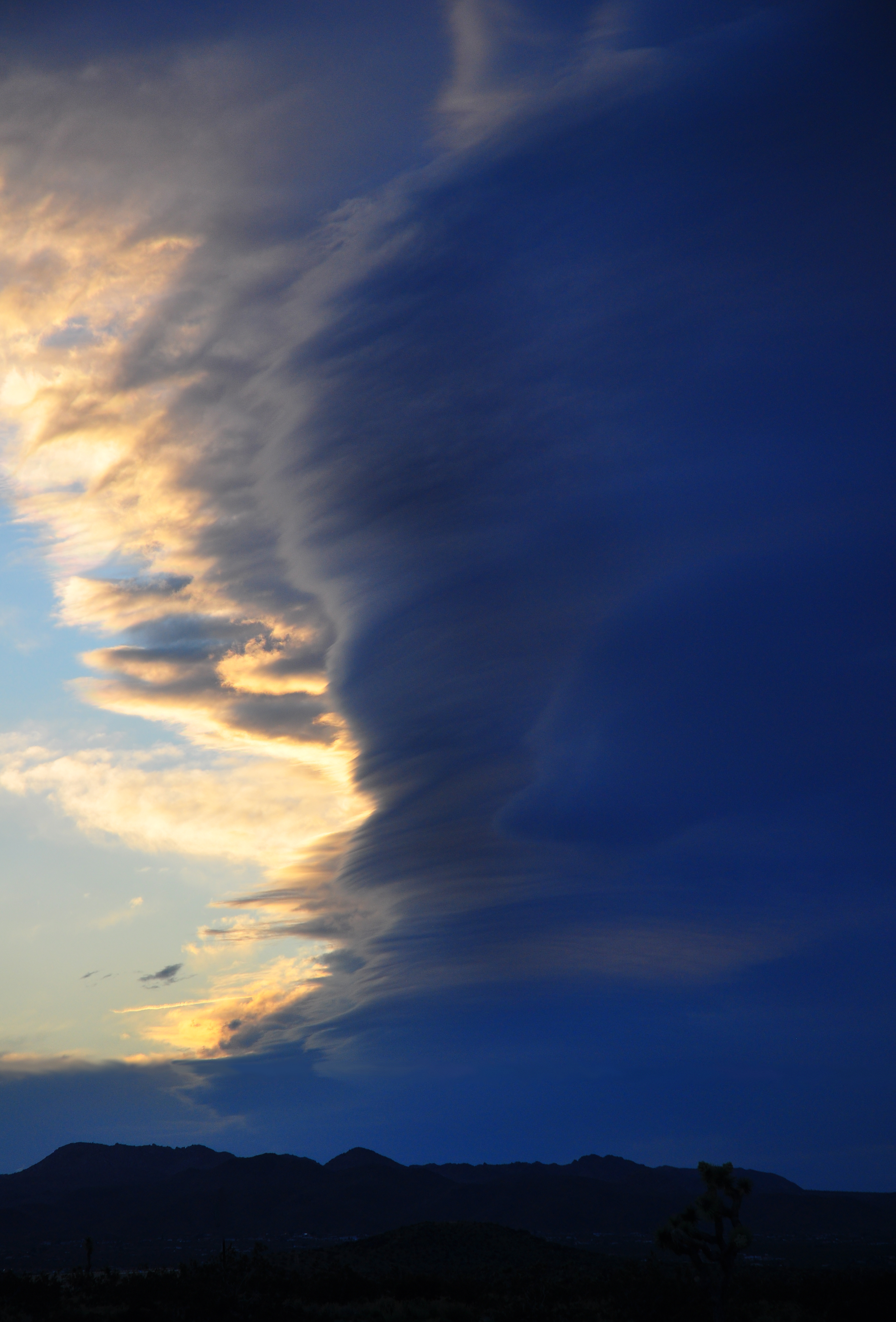 Massive towering vertical cloud appears at sunset over the Mojave desert, as a storm front moves in from the inland empire.